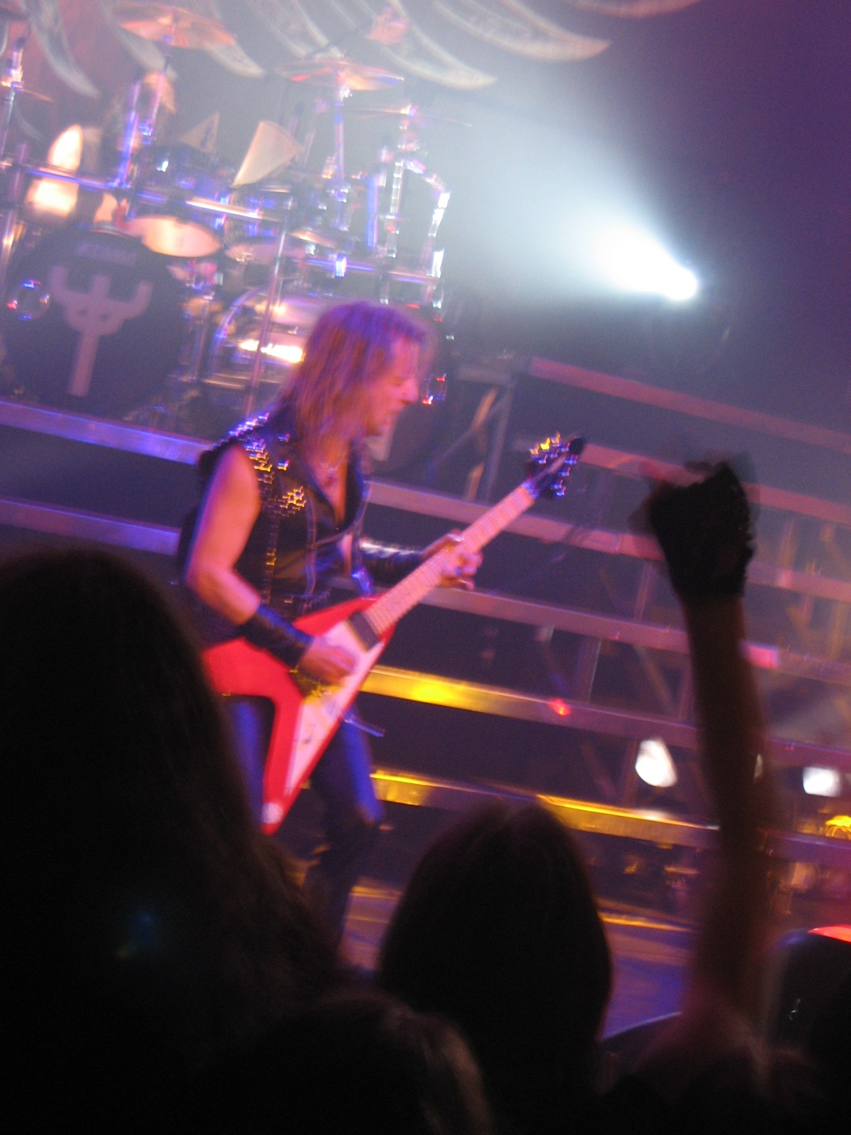 K. K. Downing of Judas Priest.JudasPriest-22